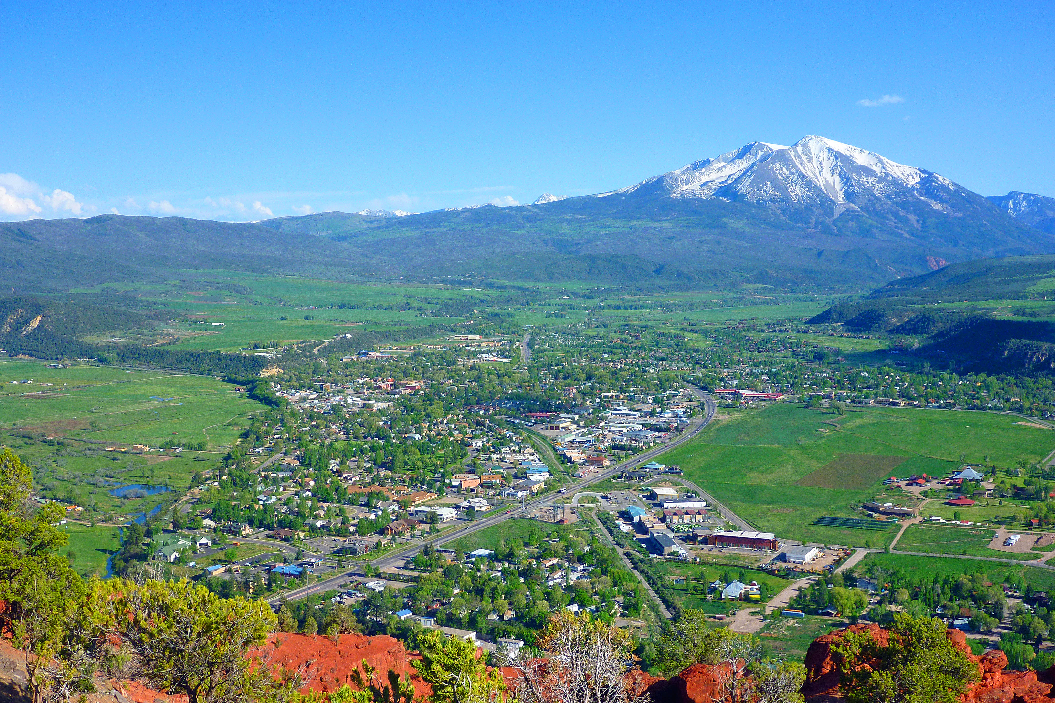 Carbondale, Colorado with Mount Sopris in the background; as viewed from Red Hill/Mushroom Rock